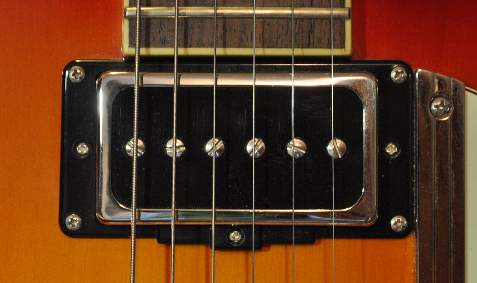 Duesenberg Domino (P90 single coil) pickup on a Duesenberg Double Cat guitar